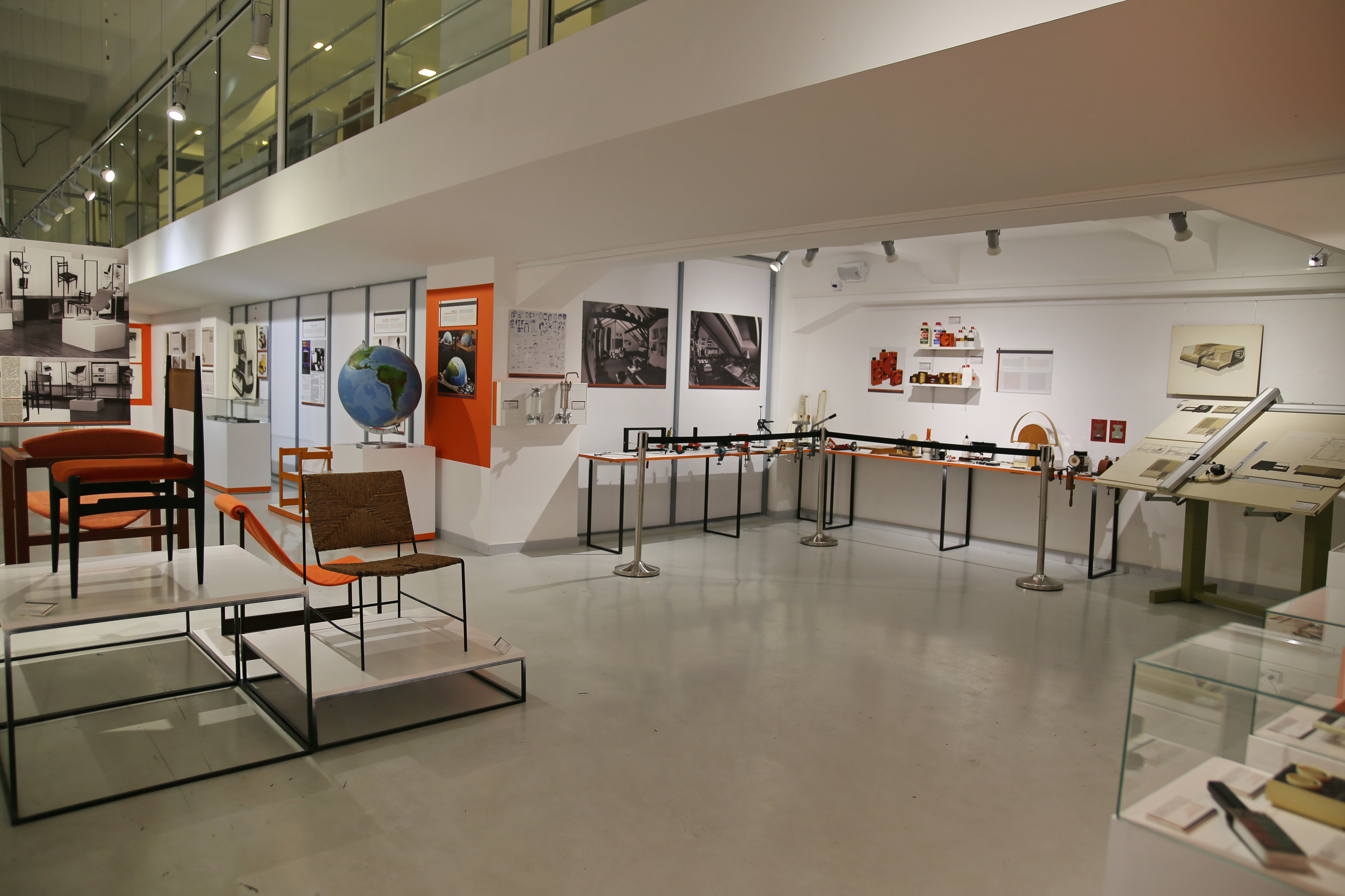 Interior of the exhibition called Gojko Varda: Sixty years dedicated to the design, held at the Museum of Science and Technology in the period from January 18 to March 31, 2019.